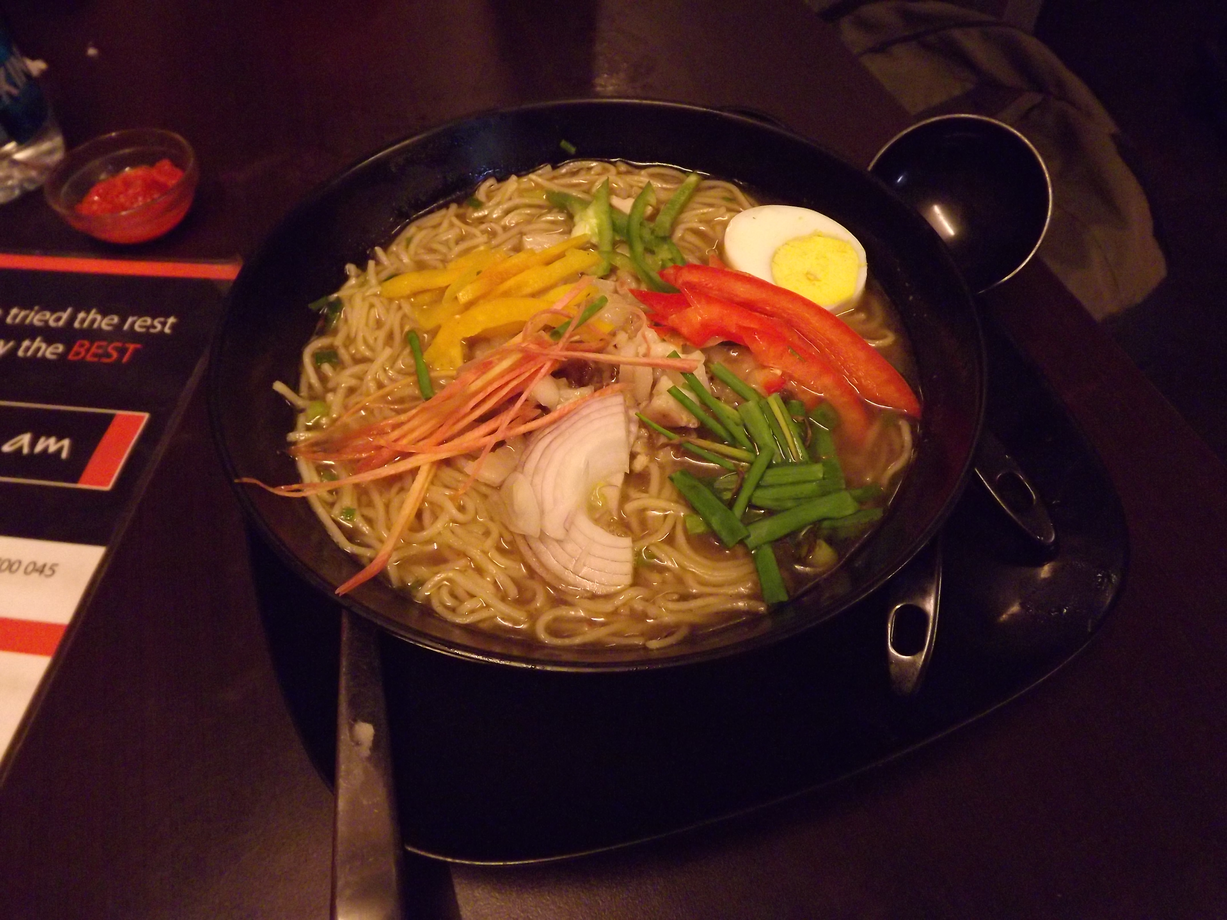 Thukpa, popular Tibetan pork noodle soup.